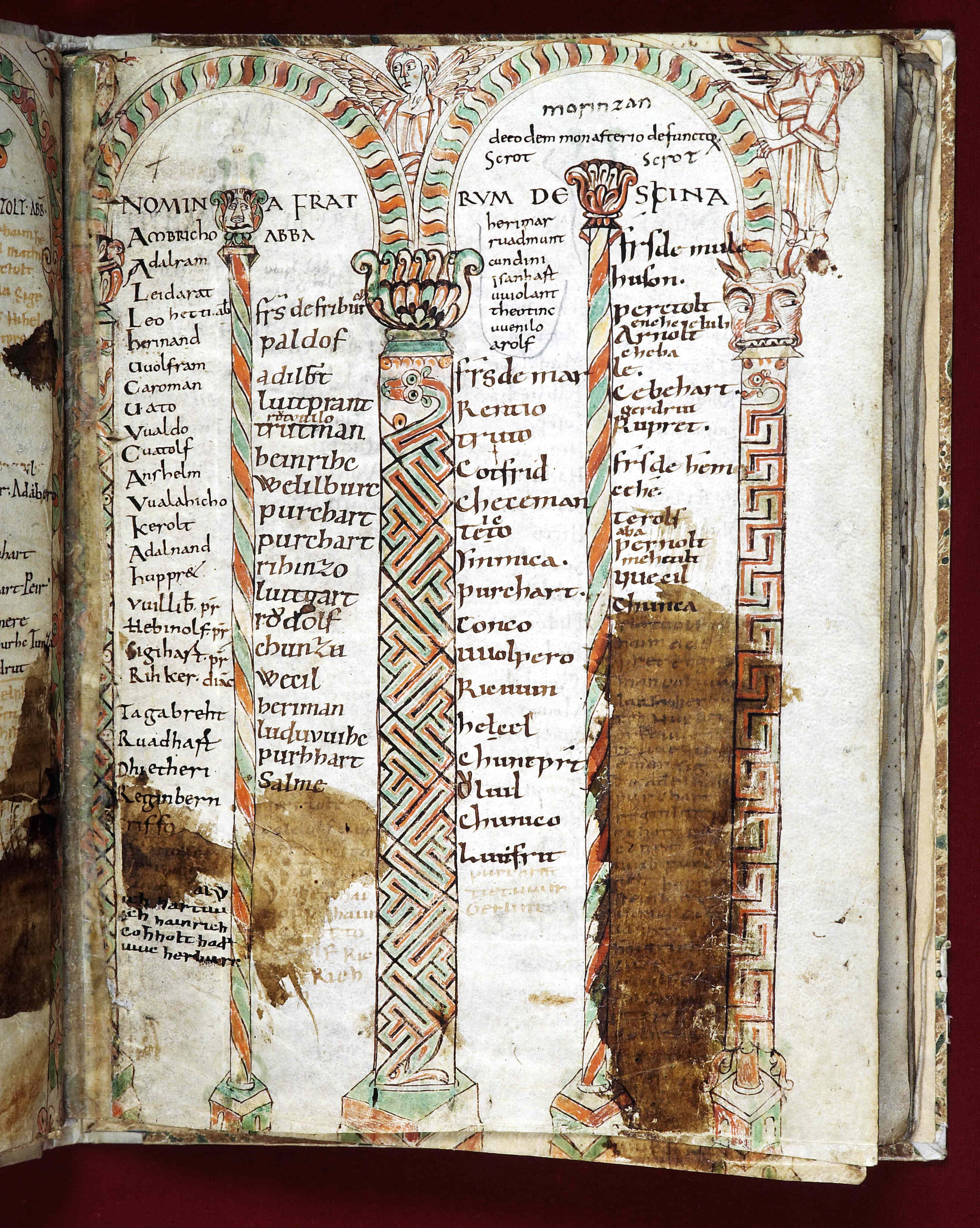 Page (A fol. 20r) (pag. 19) of the codex of fratenisation (german: Verbrüderungsbuch) from the monastery of St. Gallen, Switzerland.